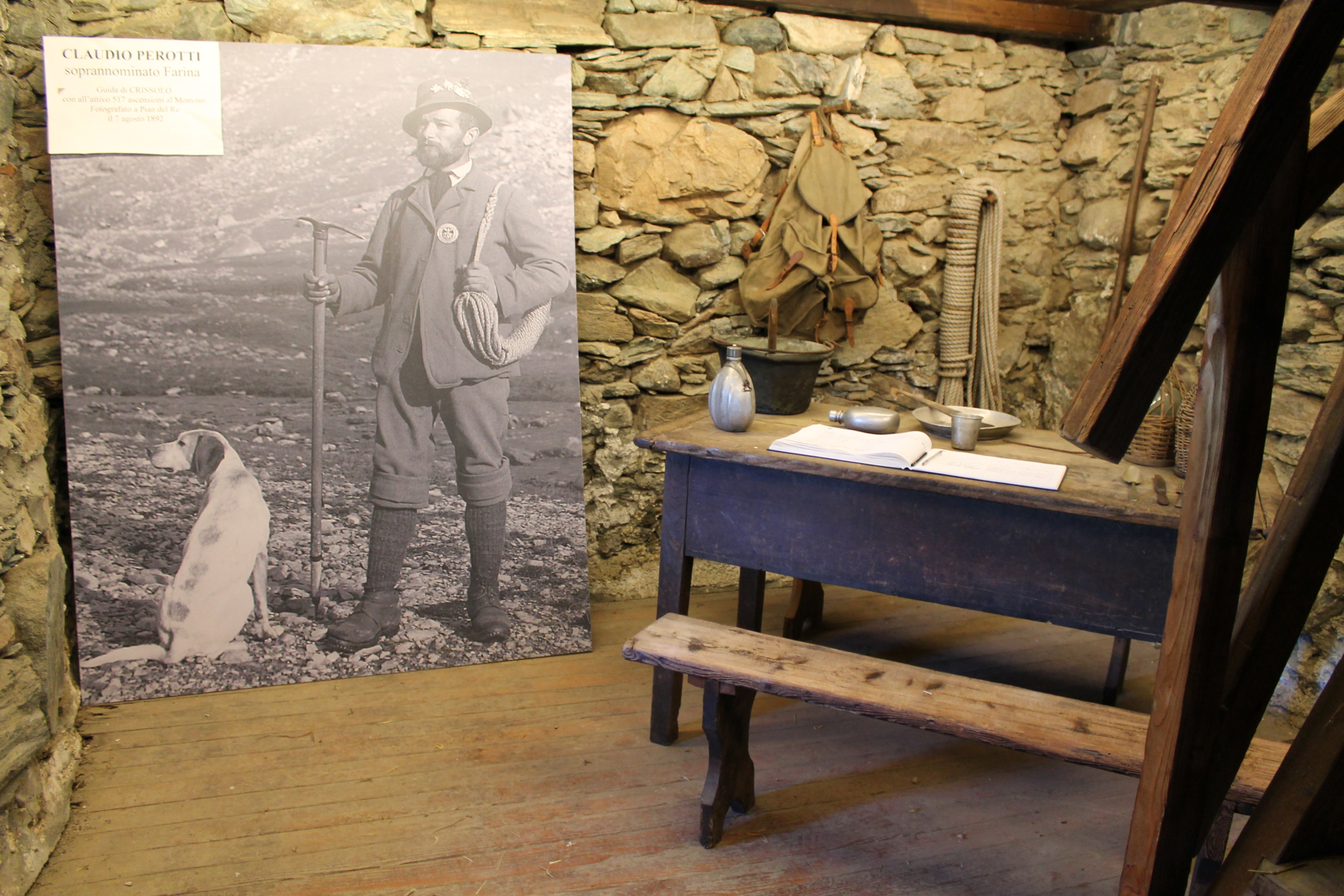 Interior of the old ricovero Alpetto (alpine hut "Alpetto") (Italy)